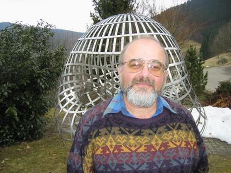 Arieh Iserles, Oberwolfach 2006